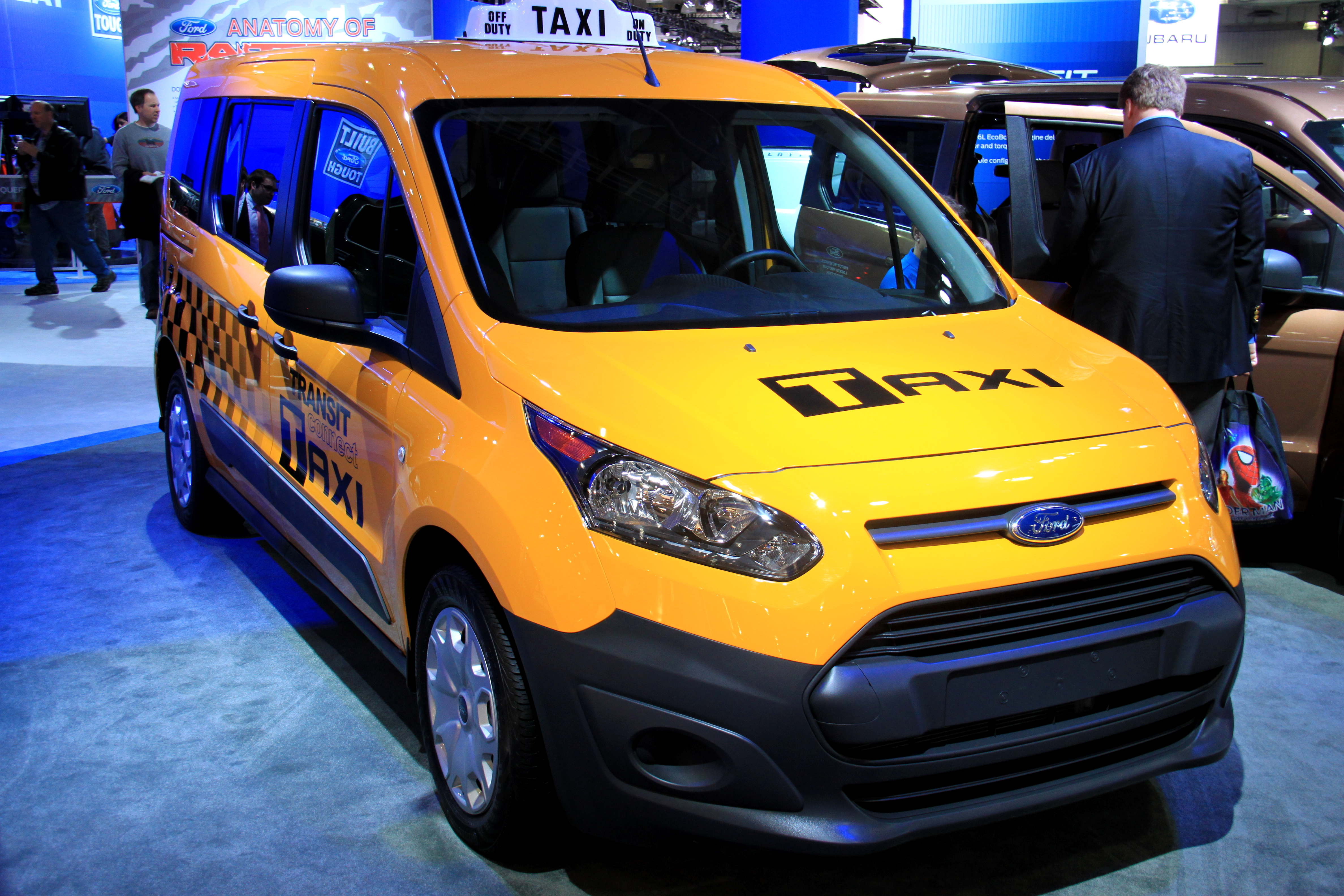 Ford Transit with taxicab livery at the 2014 New York International Auto Show